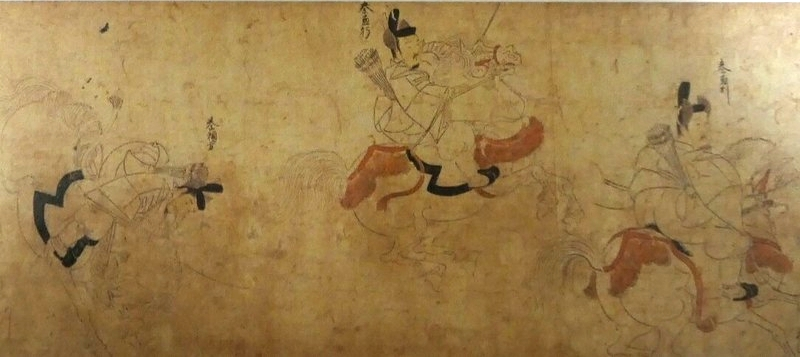 Portraits of imperial guardians, handscroll, ink and colour on paper, ACE1247, Okura Museum of Art, Tokyo, JAPAN Detail of the 5th, 6th and 7th guards.